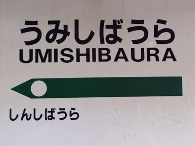 Photo of Umi-Shibaura Station sign. Taken by me, User:Tangotango.